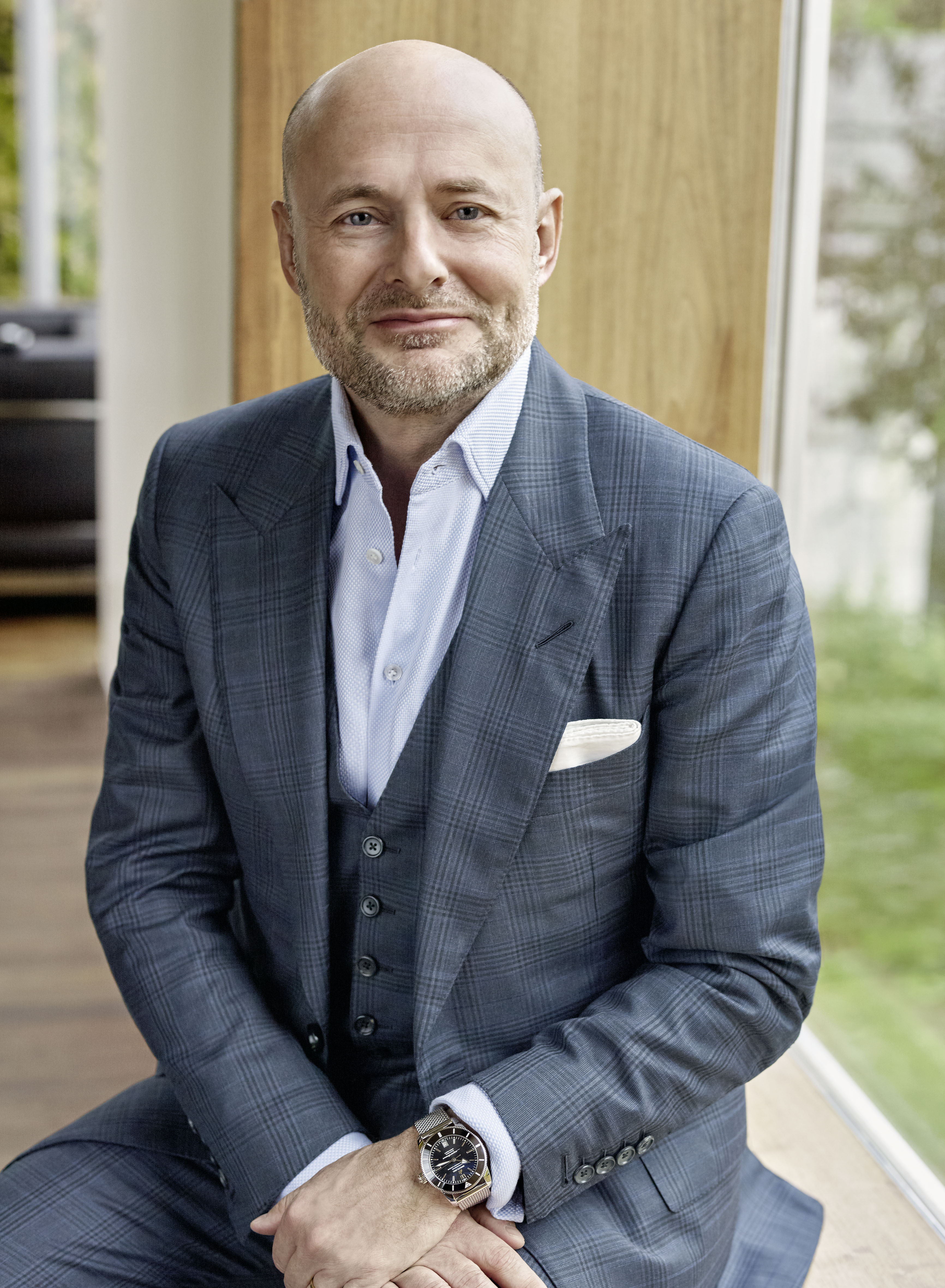 Georges Kern